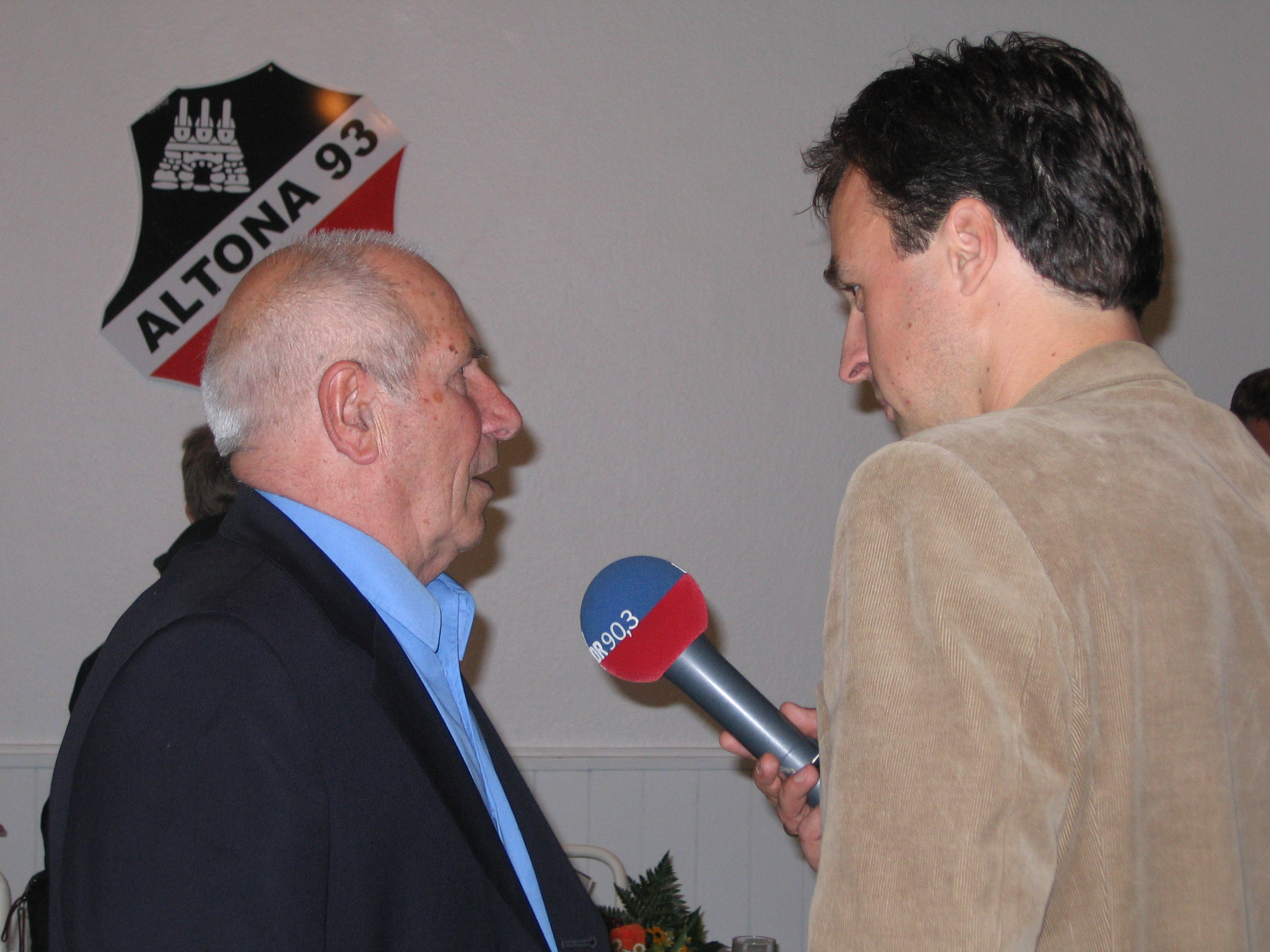 Werner Erb is interviewed